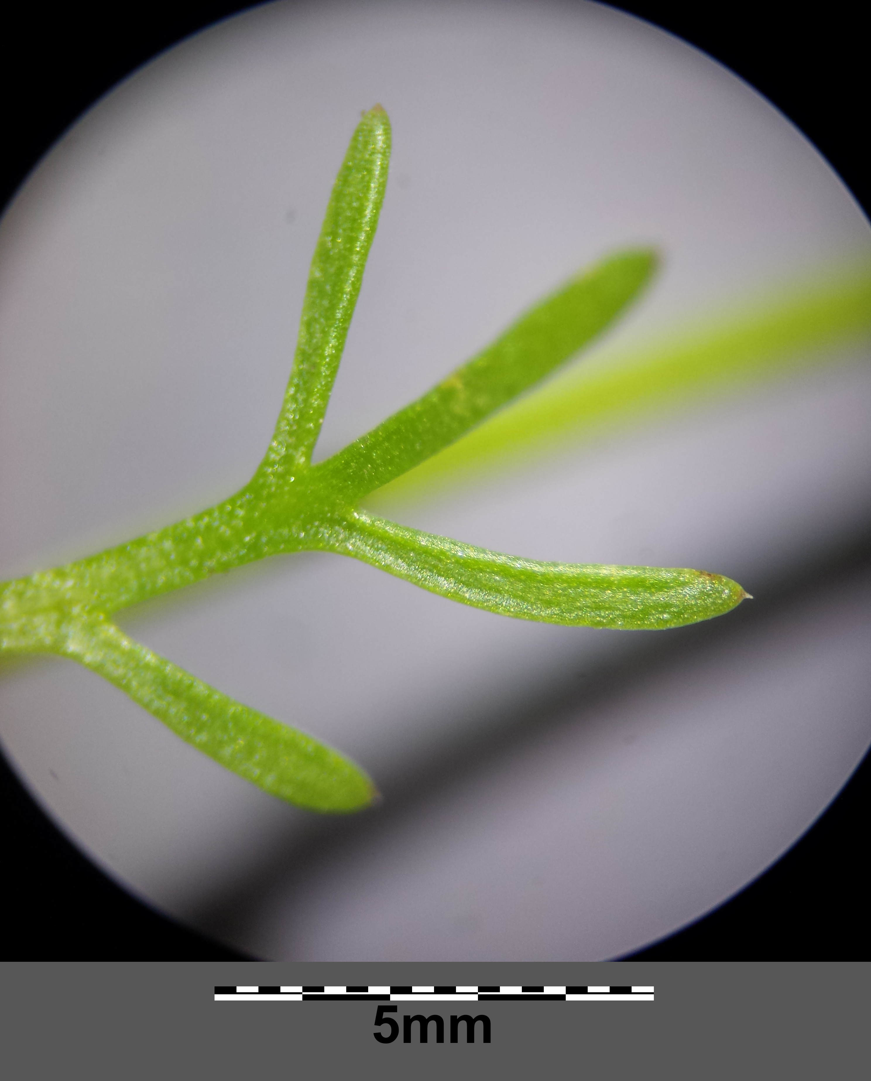 Stem with leaf Taxonym: Matricaria chamomilla ss Fischer et al. EfÖLS 2008 ISBN 978-3-85474-187-9 Location: pond near Michelstetten, district Mistelbach, Lower Austria - ca. 250 m a.s.l. Habitat: shore of a pond